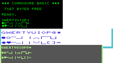 Commodore PETSCII Character Set comparison. PET, Vic-20 and C-128 (from top to bottom). All same original scales. Created with WinVice. The PET screen does not show full screen width (needs additional black background). There are different resolutions and character sets depending on PET model.